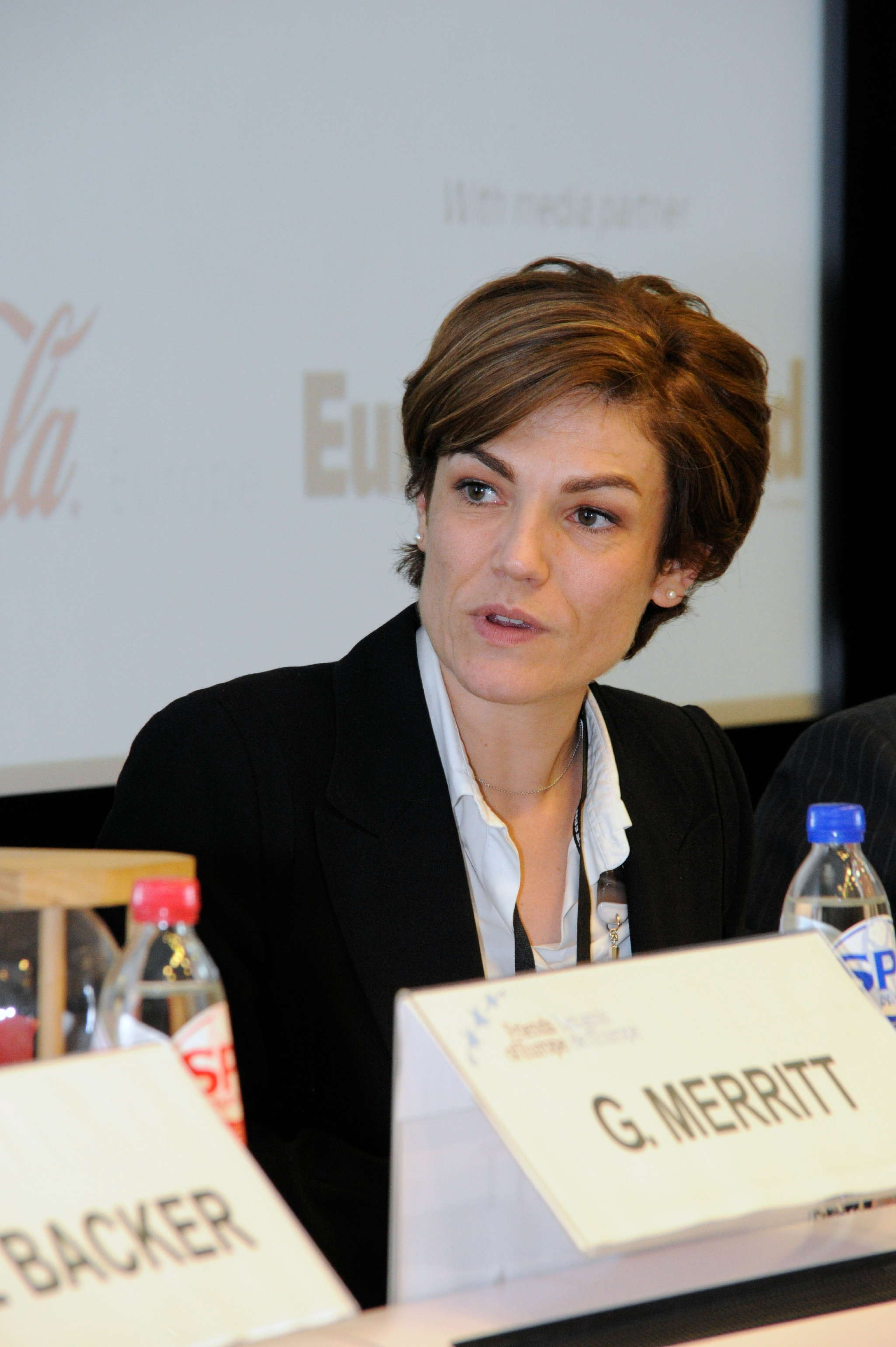 Photo: Laurent Achedjian